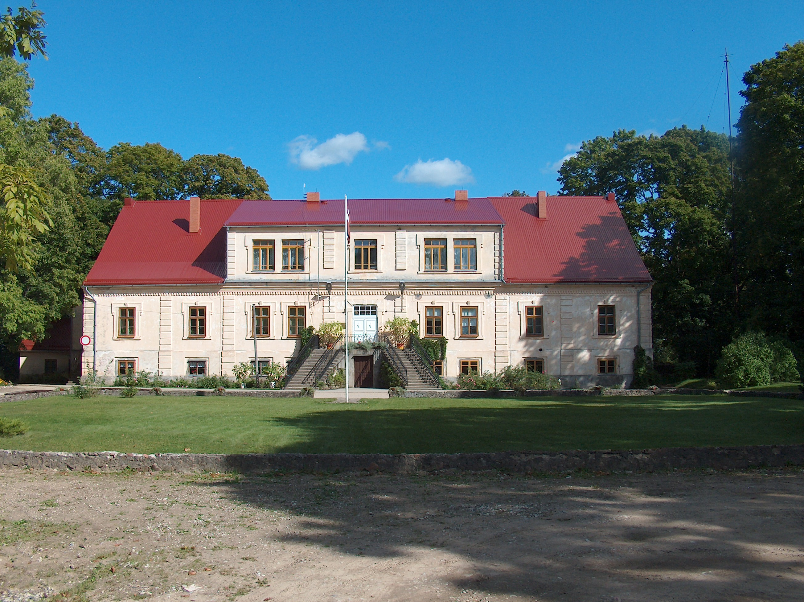 Spahren manor building